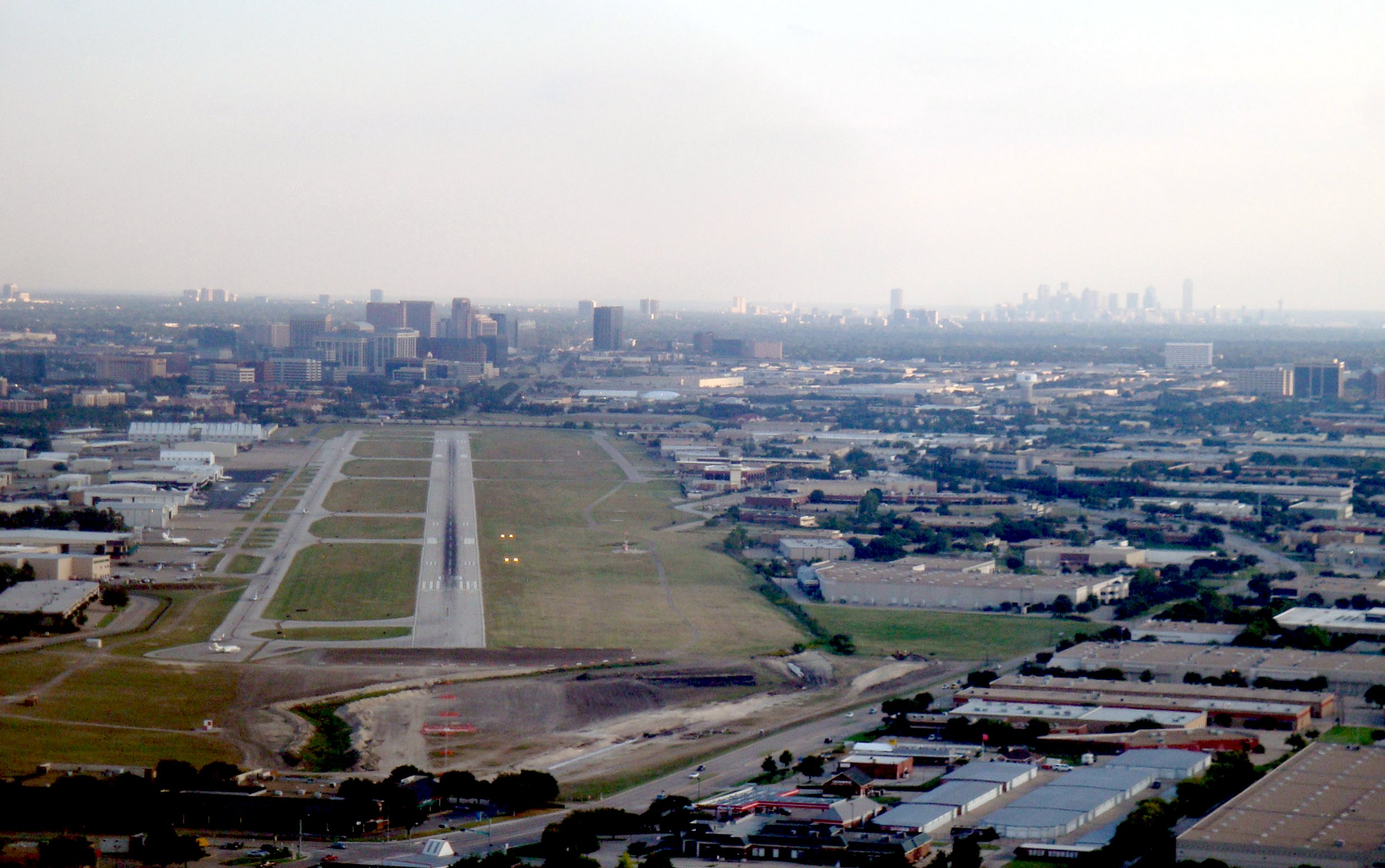 A good view of Addison Airport and much of Dallas.